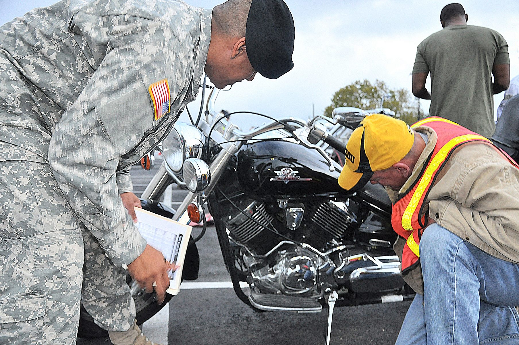 Before the ride to Fredericksburg, Texas, Soldiers assigned in groups using the T-Clocs inspection checklist, inspect a motorcycle's tires and wheels, controls, lights, oil, chassis and stands.